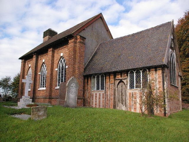 St Michael's parish church, Baddiley, Cheshire, seen from the southeast